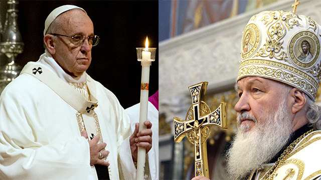 Franciscus and Patriarch Kirill